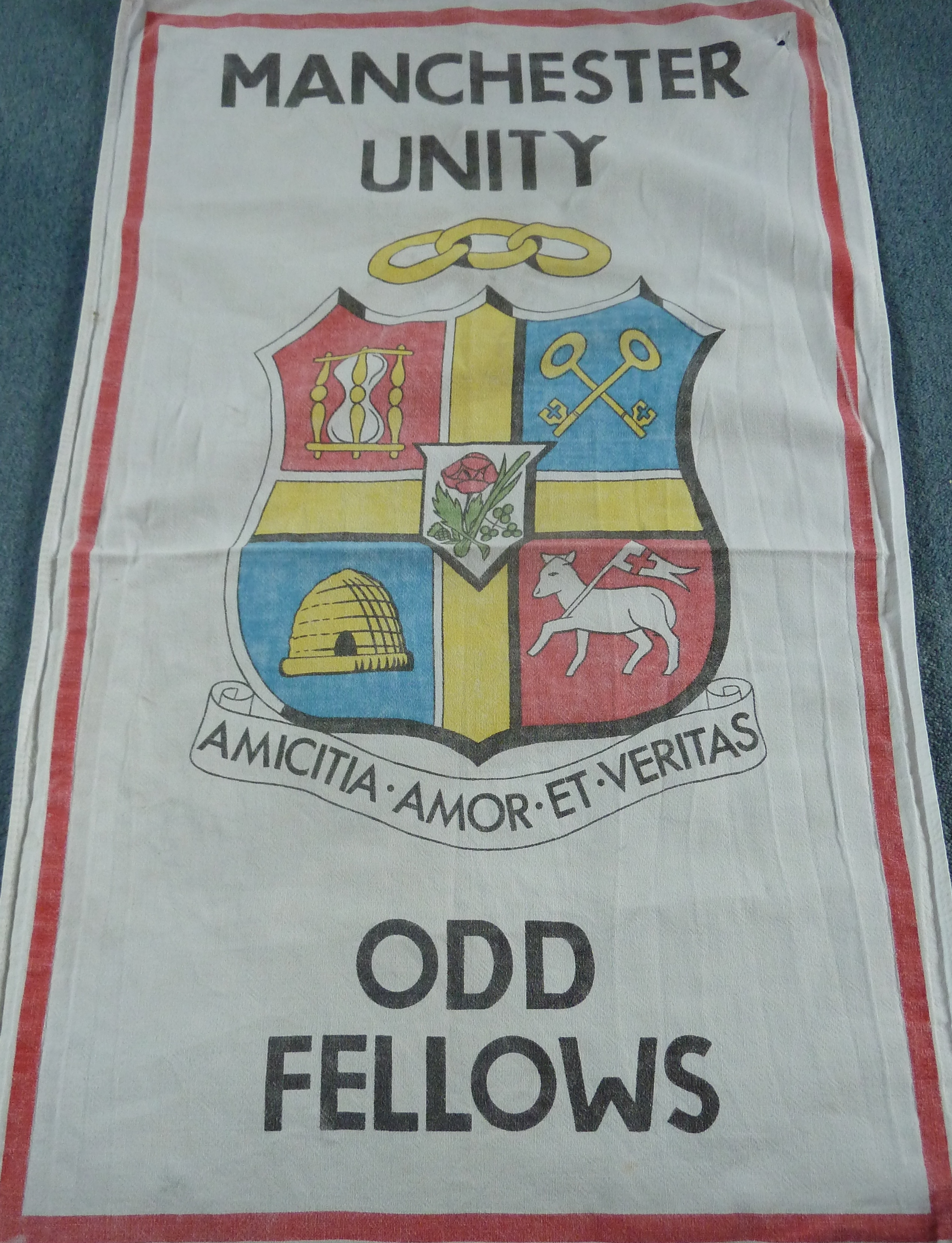 In 1810, members of the Oddfellows in Manchester area became dissatisfied with the way the Grand United Order was being run and formed an independent Order: this is its logo.